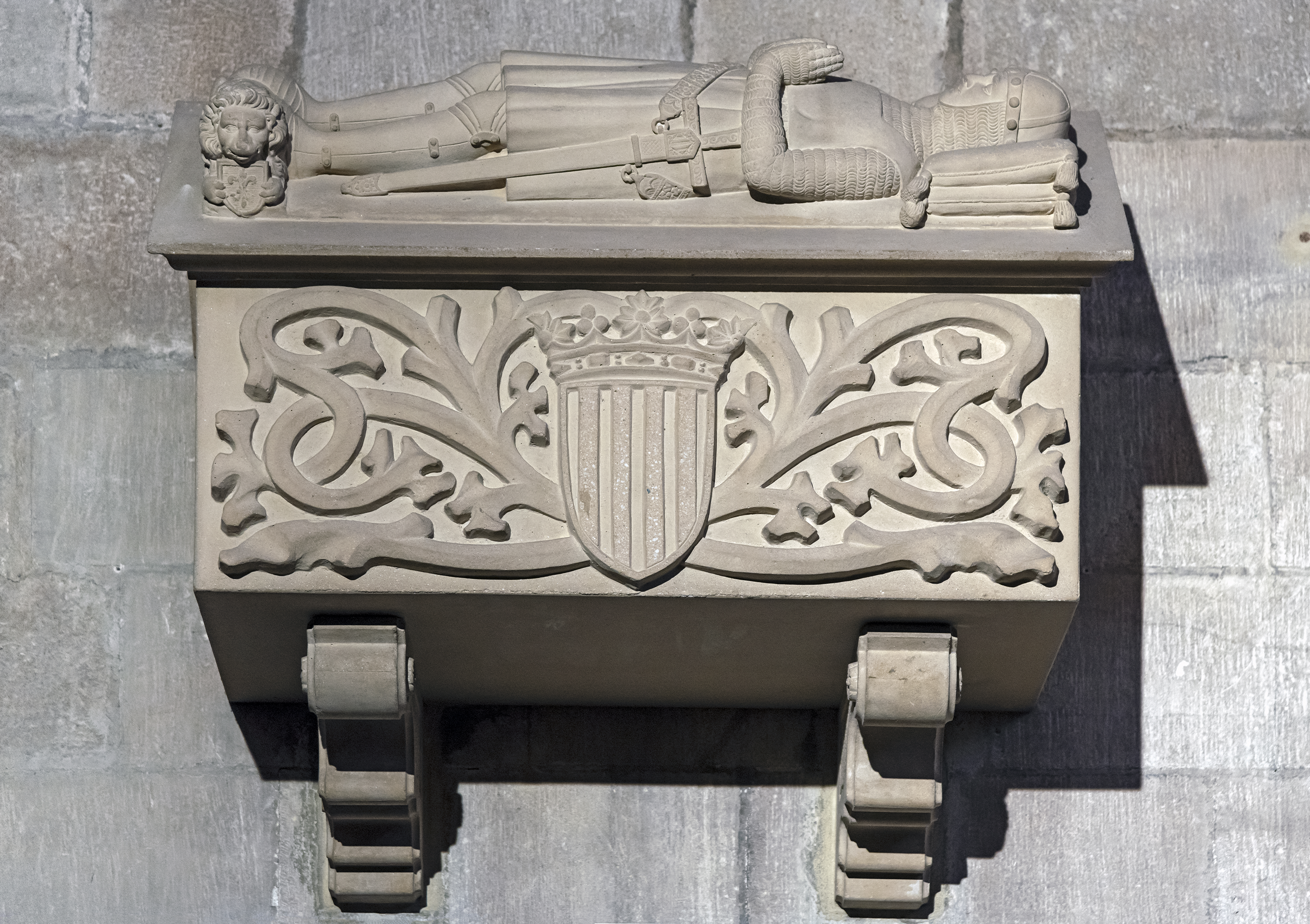 The Cathedral of the Holy Cross and Saint Eulalia in Barcelona. Royal tombs in the Cathedral of Barcelona: urn of kings. Alfonso III of Aragon and James I, Count of Urgell